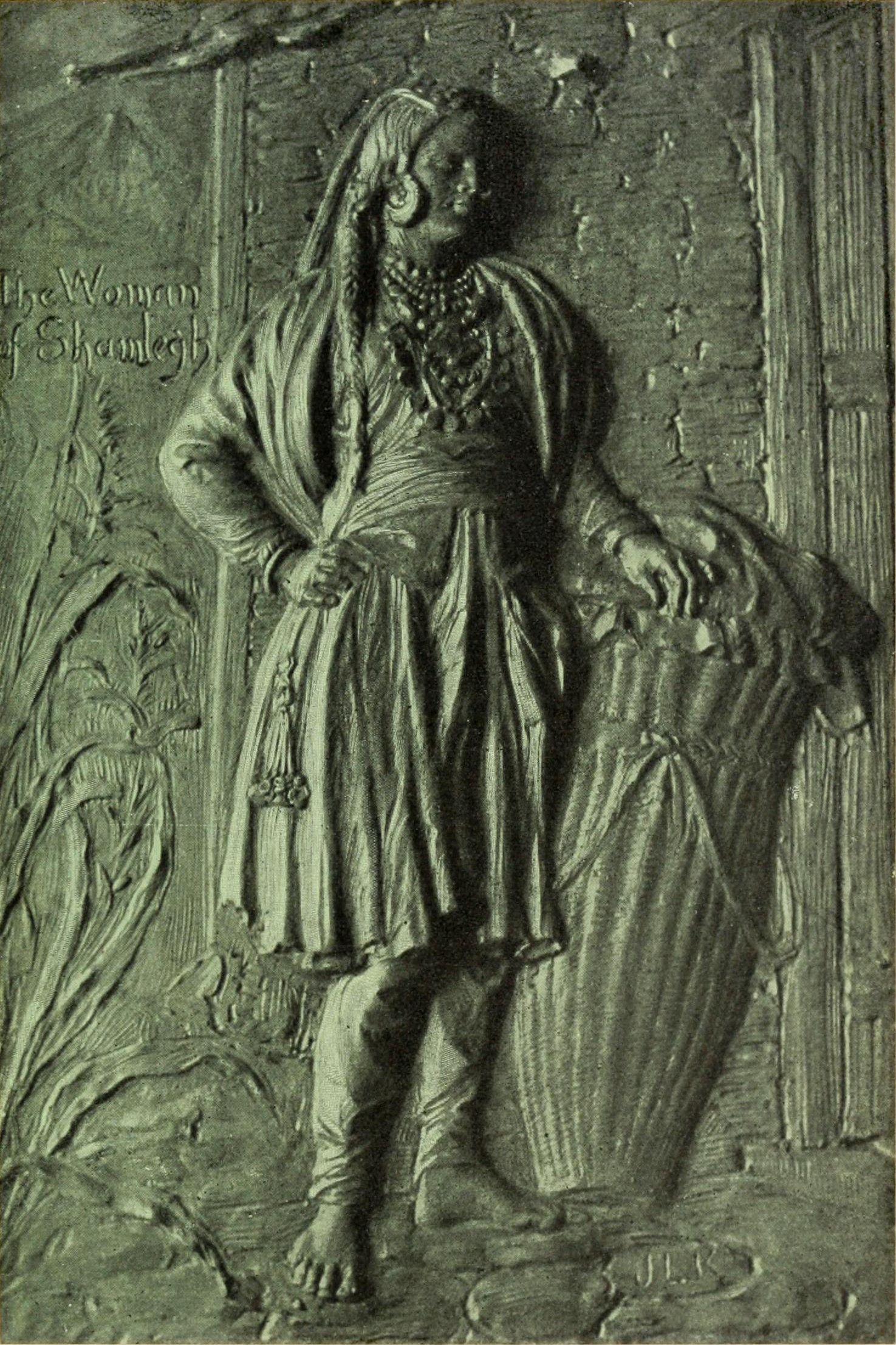 Illustration of a scene from Rudyard Kipling's "Kim" (1901) by his father John Lockwood Kipling. "'I am the woman of Shamlegh'"